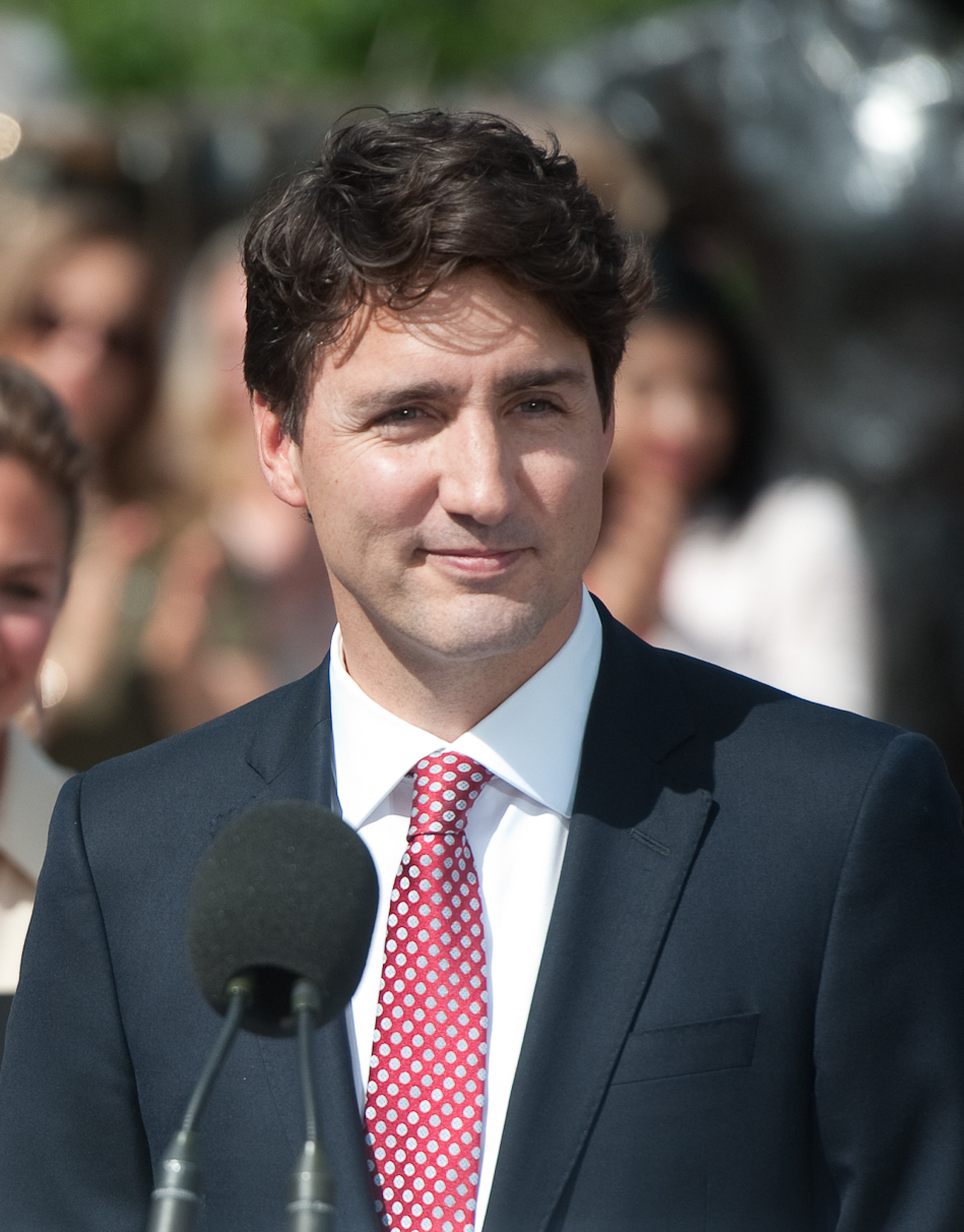 On June 13, 2017 The Right Honourable Justin Trudeau, Prime Minister of Canada, and President/CEO of Women Deliver Katja Iversen announced that Vancouver, Canada will be the official location for the Women Deliver 2019 Conference. They were joined by Madame Sophie Grégoire Trudeau, Minister Marie-Claude Bibeau, and Minister Maryam Monsef. Photo: Women Deliver Learn more about the Women Deliver 2019 Conference